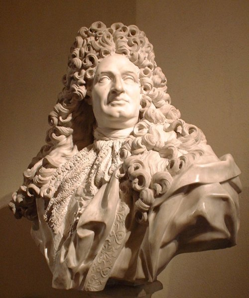 Bust of Jules Hardouin-Mansart (1645–1708)